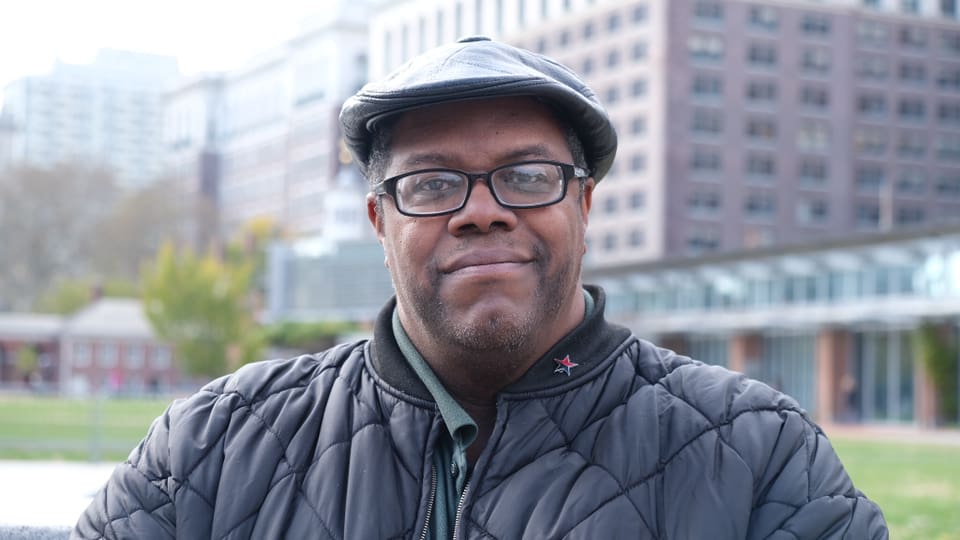 Daryle Lamont Jenkins, founder of One People's Project Philadelphia, PA. Nov. 2018